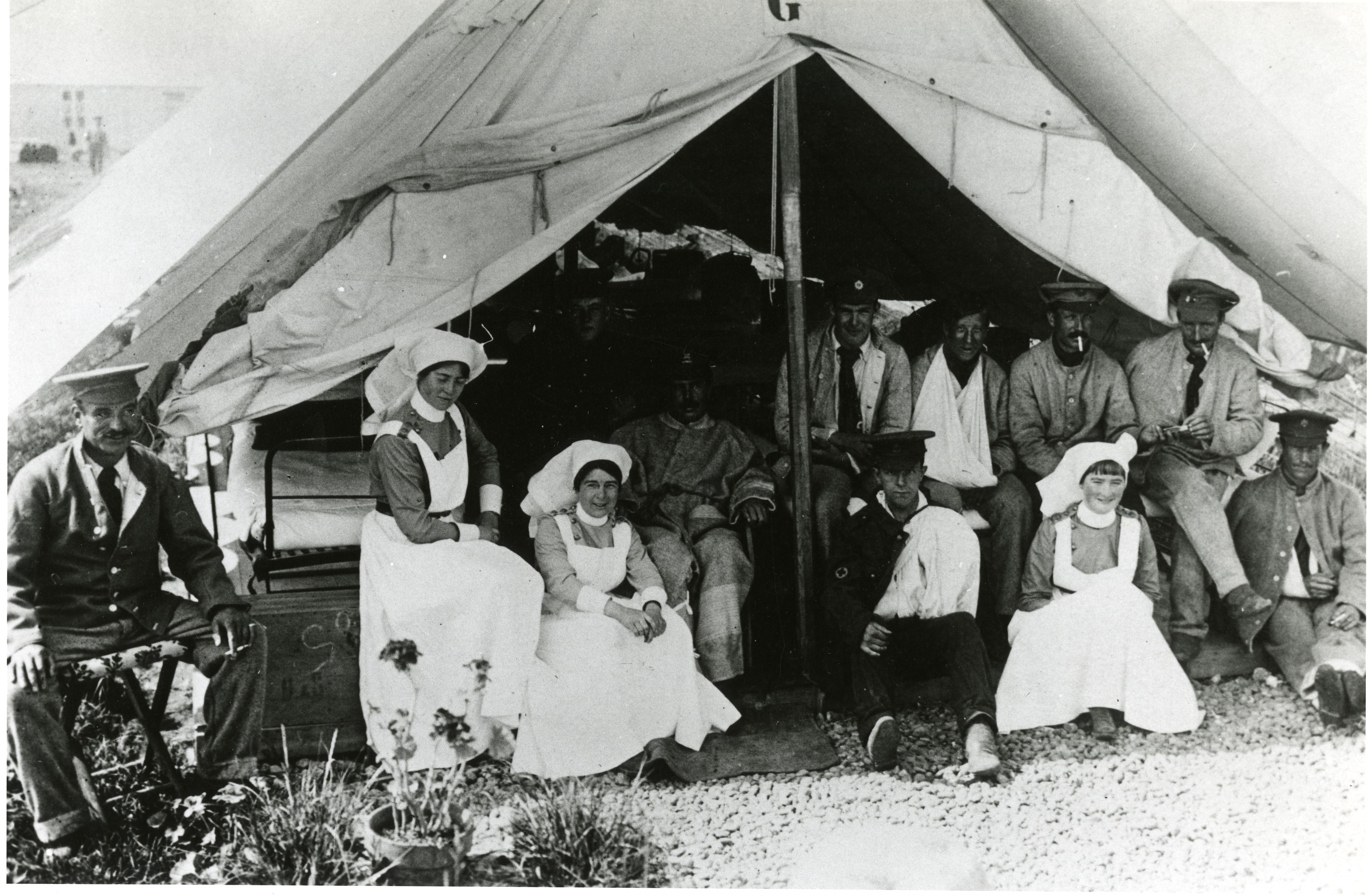 From the A. Lawrence Berry fonds, PR1973.0467/18.